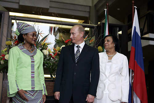 CAPE TOWN. Vladimir Putin with the National Assembly Speaker Baleka Mbete and Deputy Chair of the National Council of Provinces Peggy Hollander.